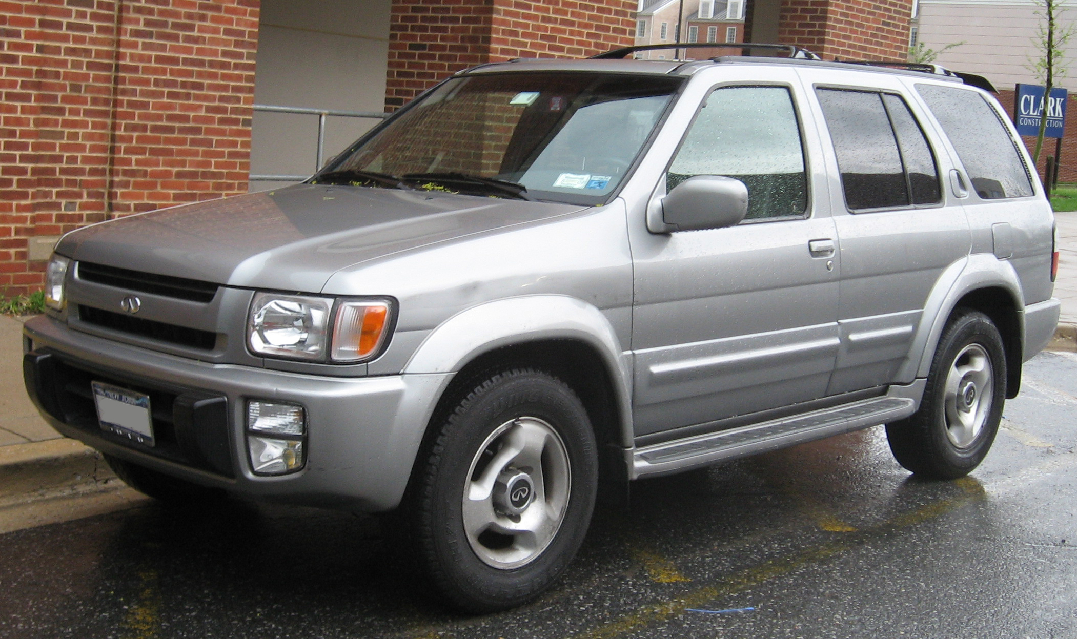 1997-2000 Infiniti QX4 photographed in College Park, Maryland, USA.